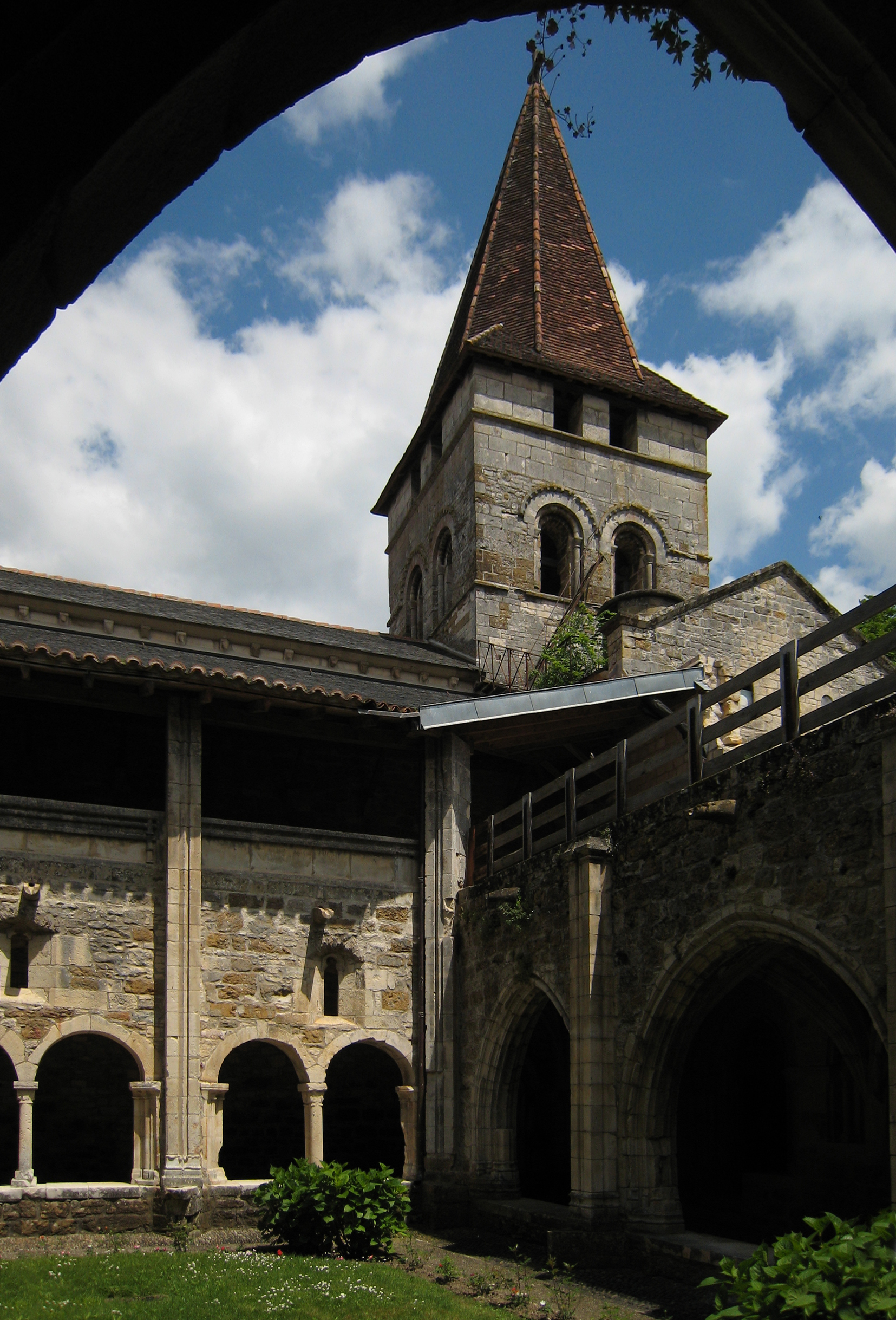 Village of Carennac, situated in the Département of Lot/France - cloistered courtyard